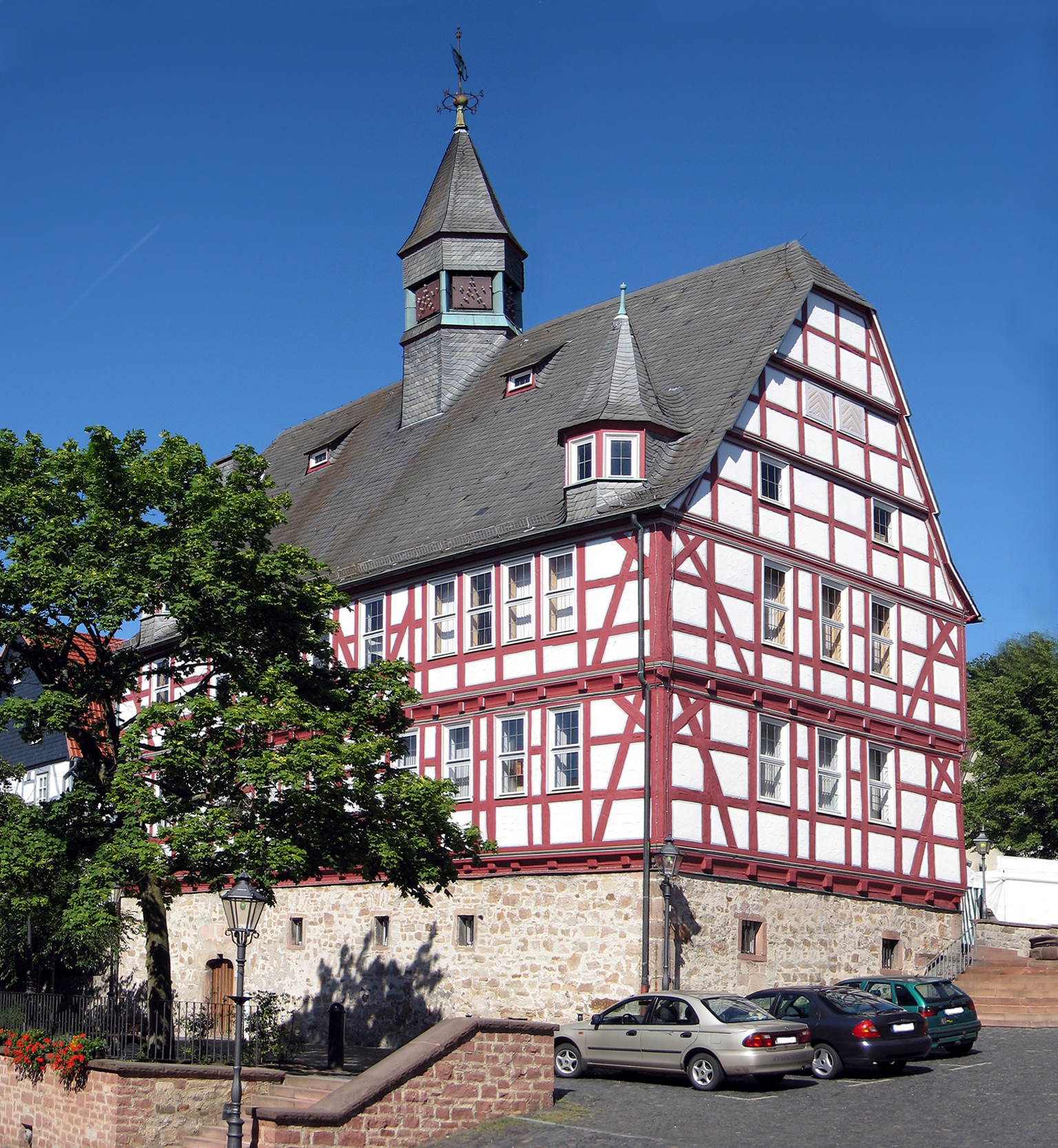 City hall of Homberg (Ohm)